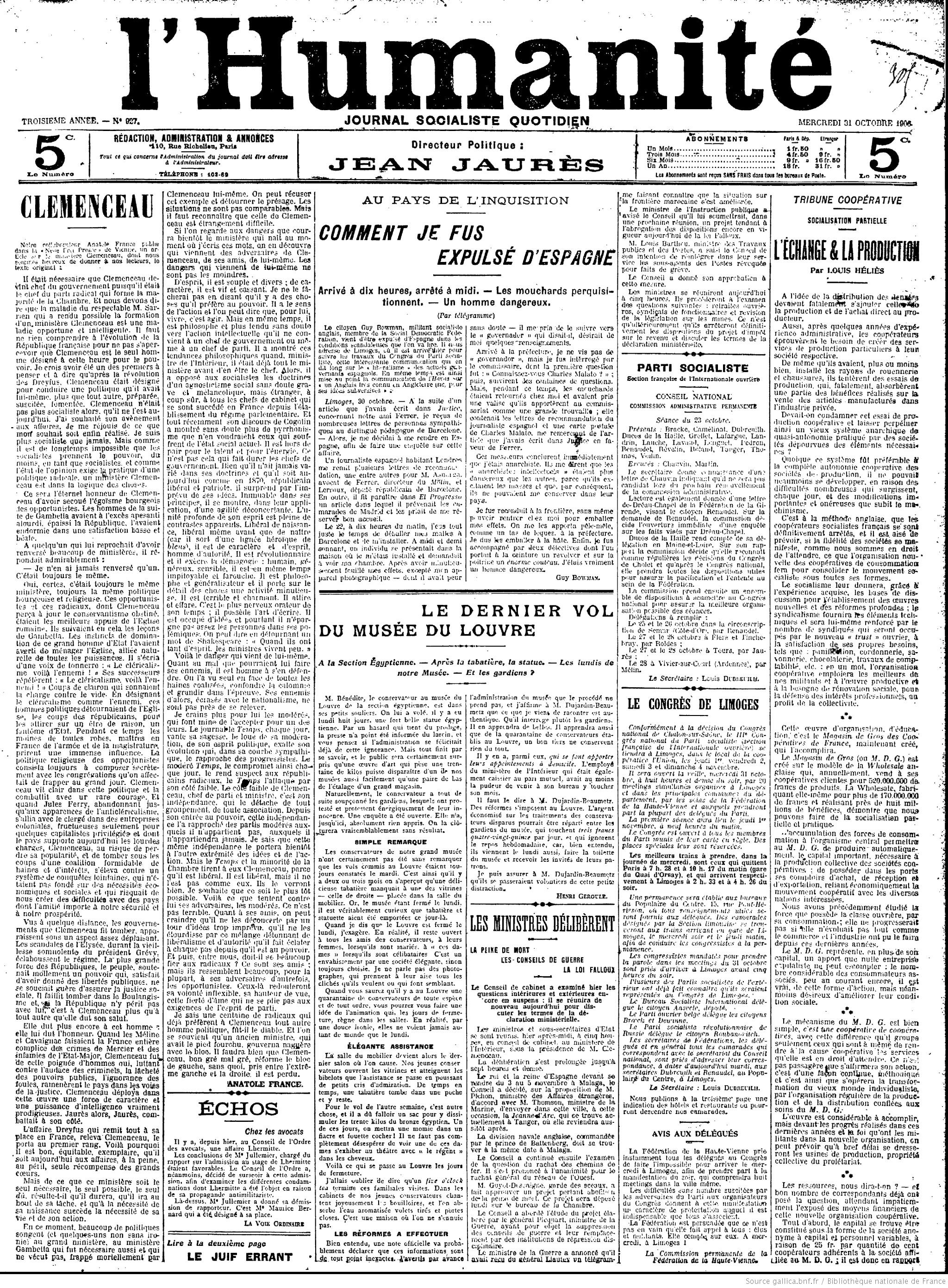 First page of L'Humanité, 31/10/1906, with an article on Clemenceau written by Anatole France (this article was originally published in the Neue Freie Presse in Vienna according to Michel Winock's biography on Clemenceau, 2007, p.338). There is also an article by Louis Héliès (socialist deputy in the 1920s) and an article on a robbery at the Louvre.